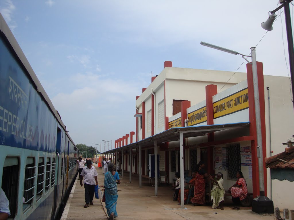 Cholan Express At CUPJ Platform 1